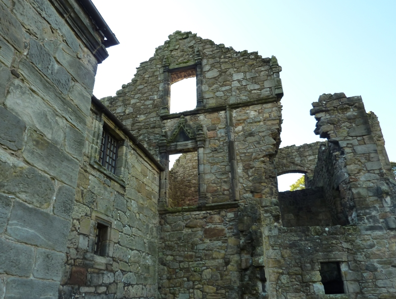 Aberdour Castle, Fife, Scotland. Towerhouse from the courtyard.